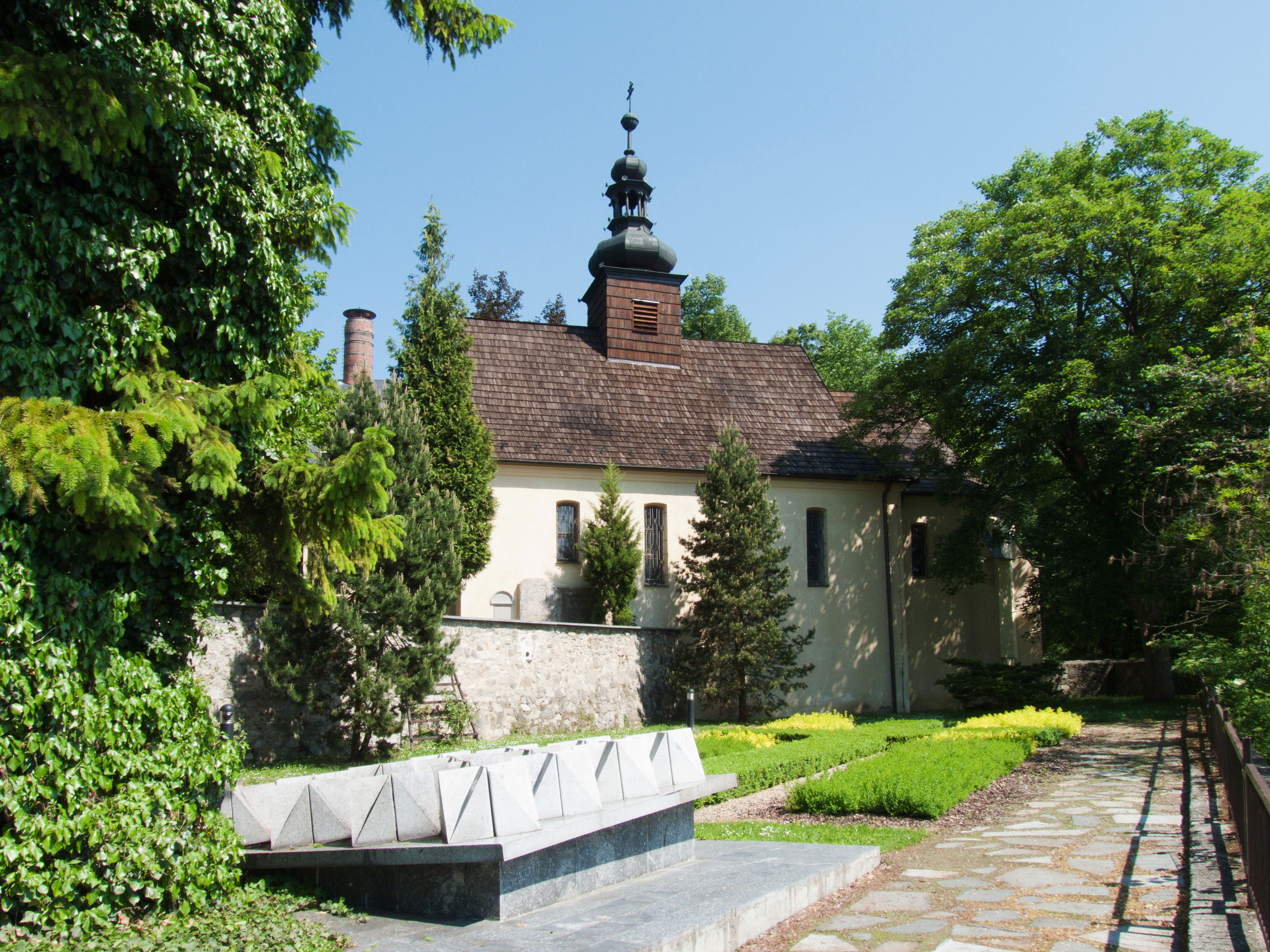 Chapel of Saints Philip and James in Tábor in the South Bohemian Region, Czech Republic.